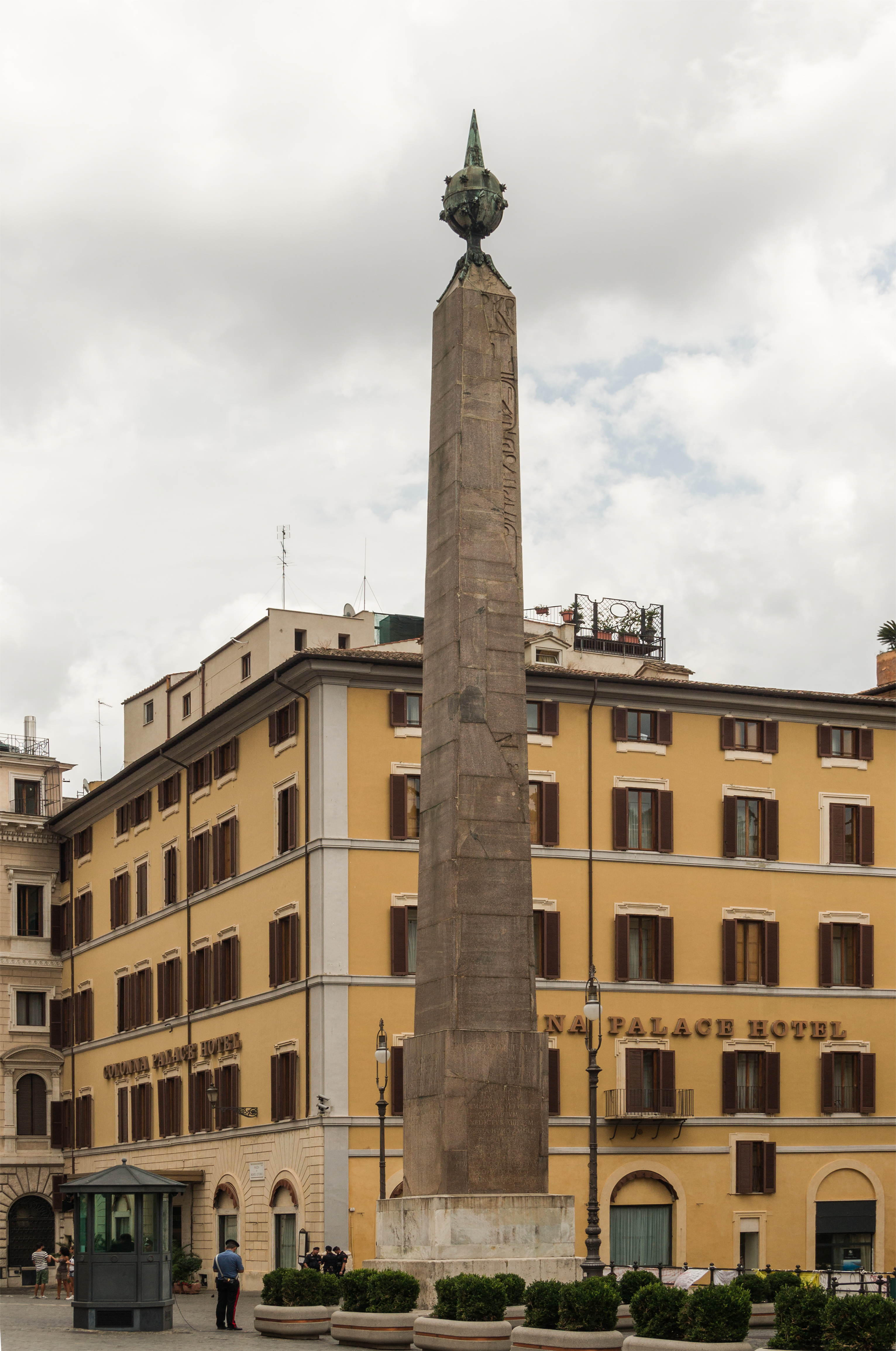 The Montecitorio obelisk, Rome, Italy.